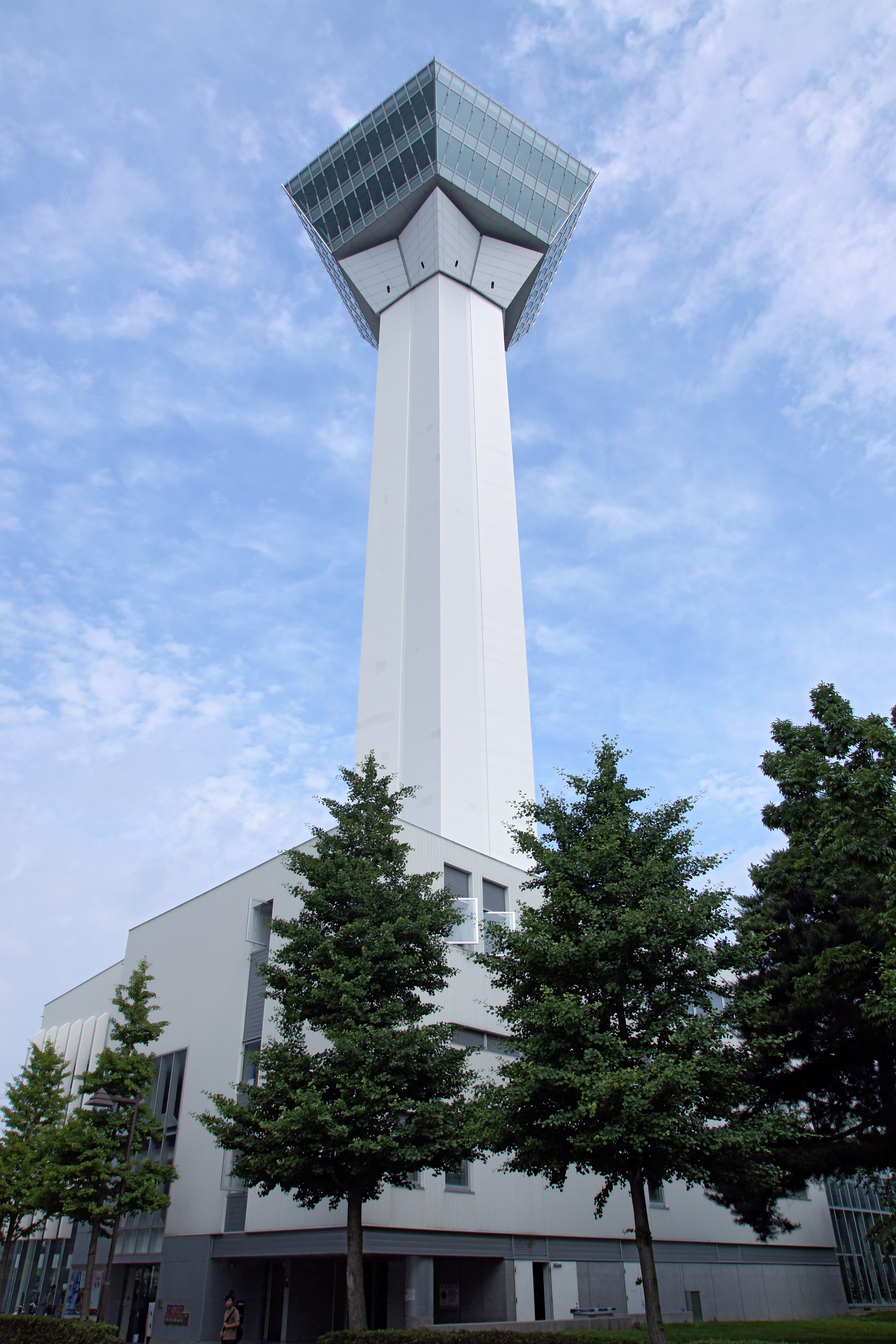 Goryōkaku Tower in Hakodate, Hokkaido prefecture, Japan